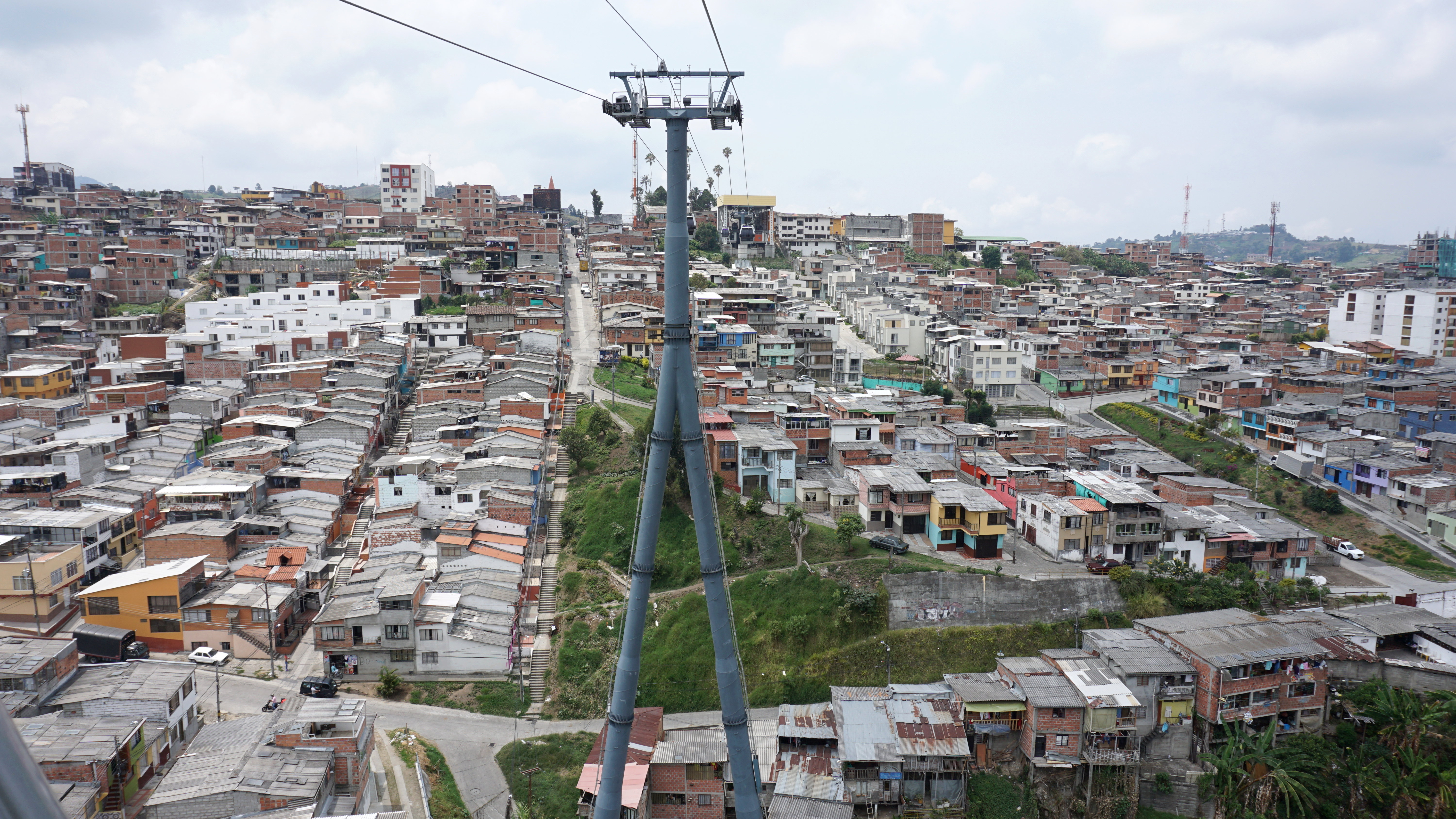 Bird's-eye view on Villa Maria, Manizales, seen from the cable car